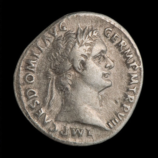 Domitian, Augustus (81-96), part of Llanavaches Roman coin hoard.